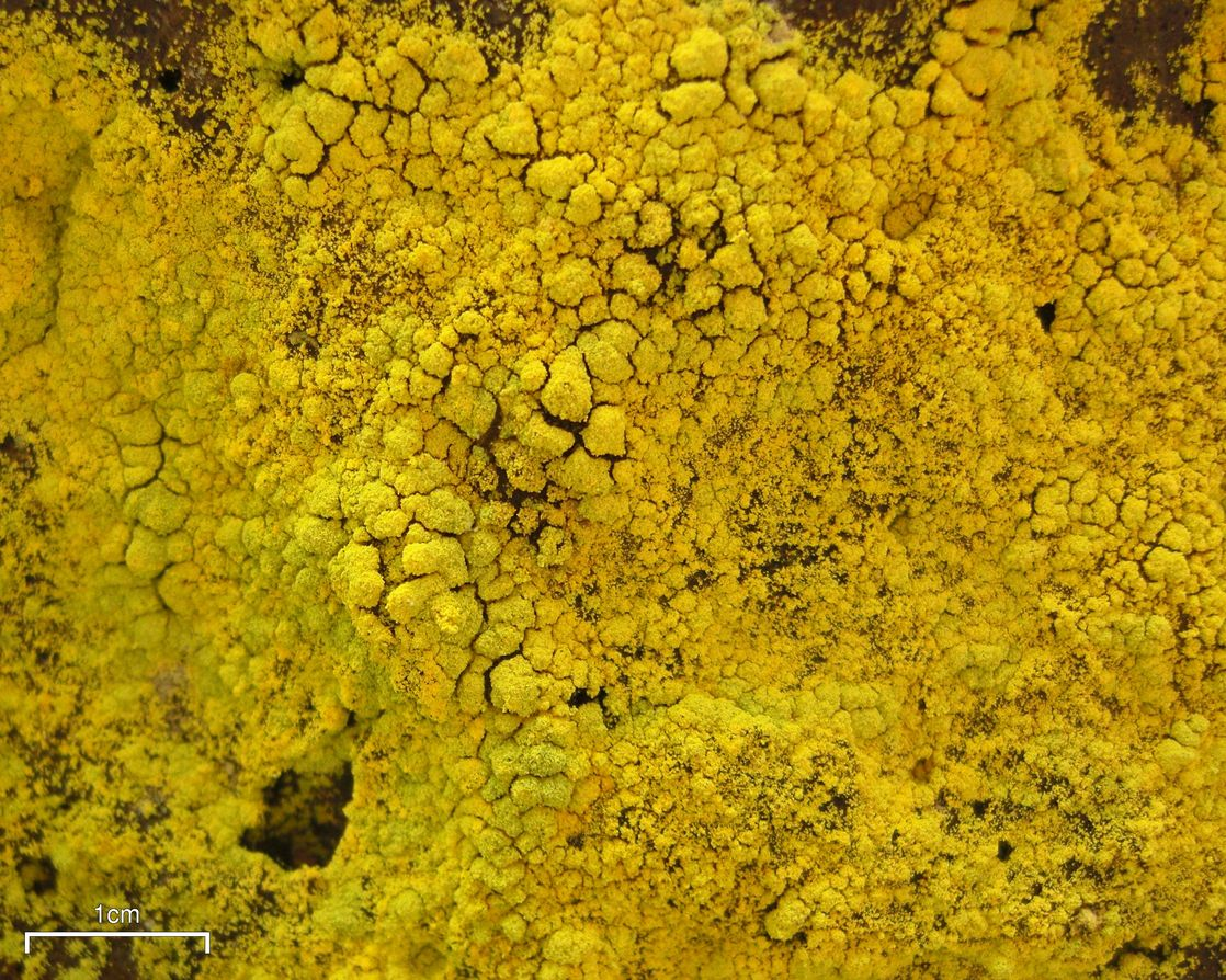 Chrysothrix candelaris (L.) J. R. Laundon 20090616.21 Wells Gray Park, BC